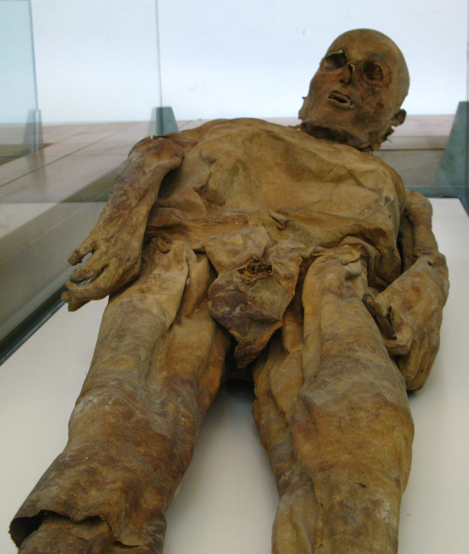 Male, nude Mummy in the roman cemetery chapel nearby cathedral Sant'Andrea Apostolo in Venzone / Tagliamento valley / Friuli-Venezia Giulia / Italy / EU. Inscription: nob. Daniello Gattolini di anni 75, salma esumata nel 1811.